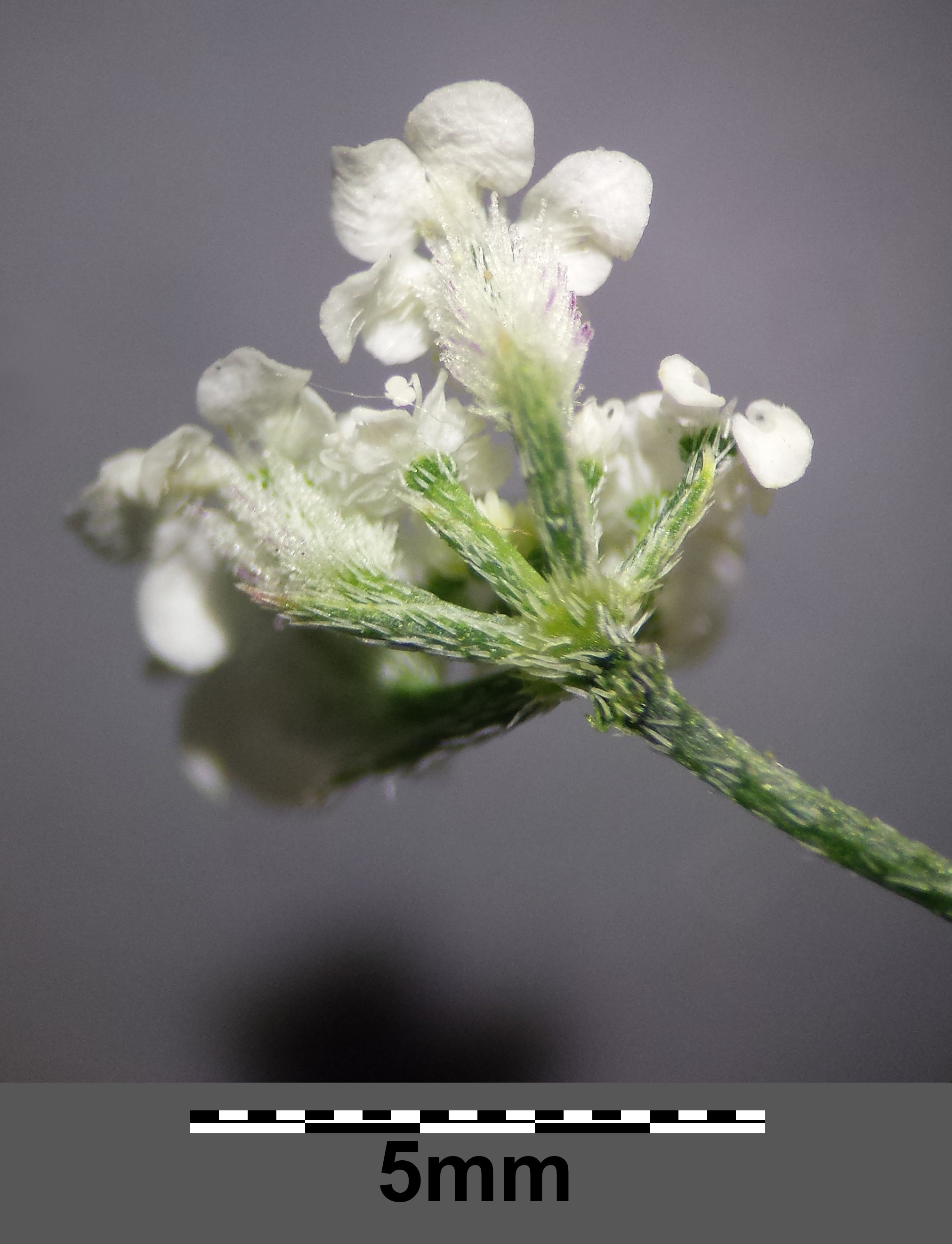 Umbellet Taxonym: Torilis arvensis ss Fischer et al. EfÖLS 2008 ISBN 978-3-85474-187-9 Location: Drygalskiweg, Vienna-Donaustadt - ca. 160 m a.s.l. Habitat: dry slope